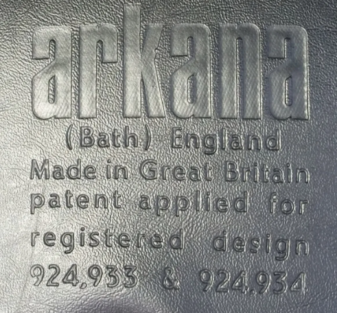 Logotype of British furniture manufacturer Arkana Limited, Bath